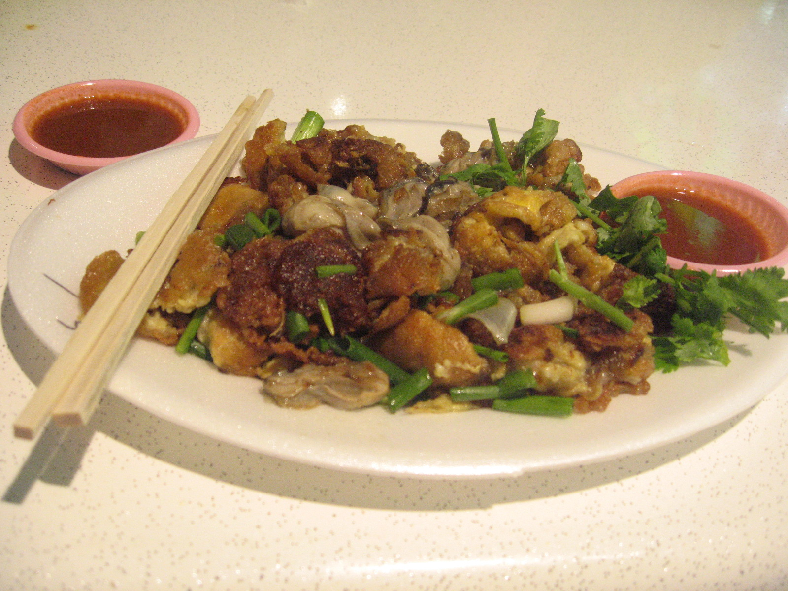 Oyster omelette (Or luak) and chilli sauce from Newton Food Centre, Singapore.